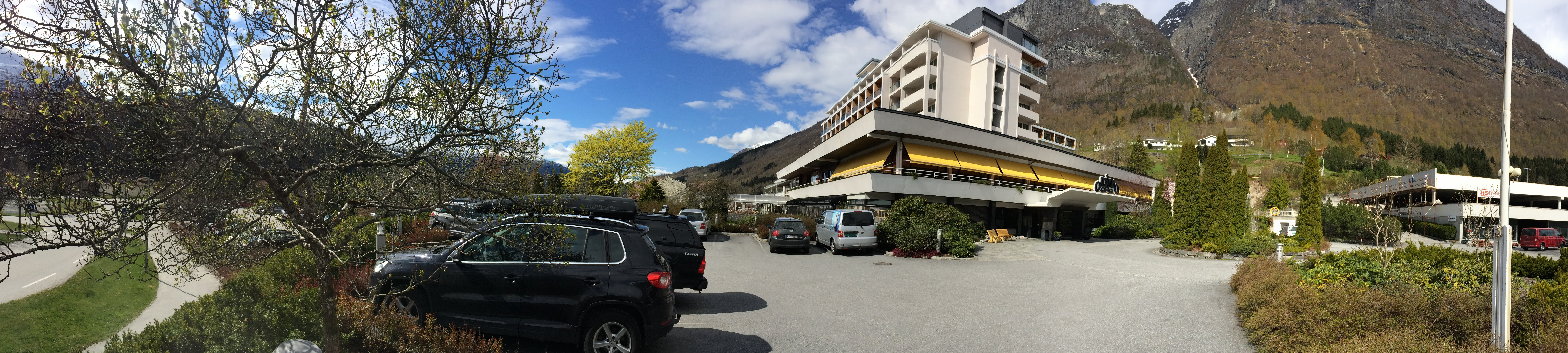 Fold-out-panorama of Hotel Alexandra in Loen, Stryn Municipality, Sogn og Fjordane, Norway. 29th April 2015. (iPhone panoramic photo, distortion may occur in details and continuity.)